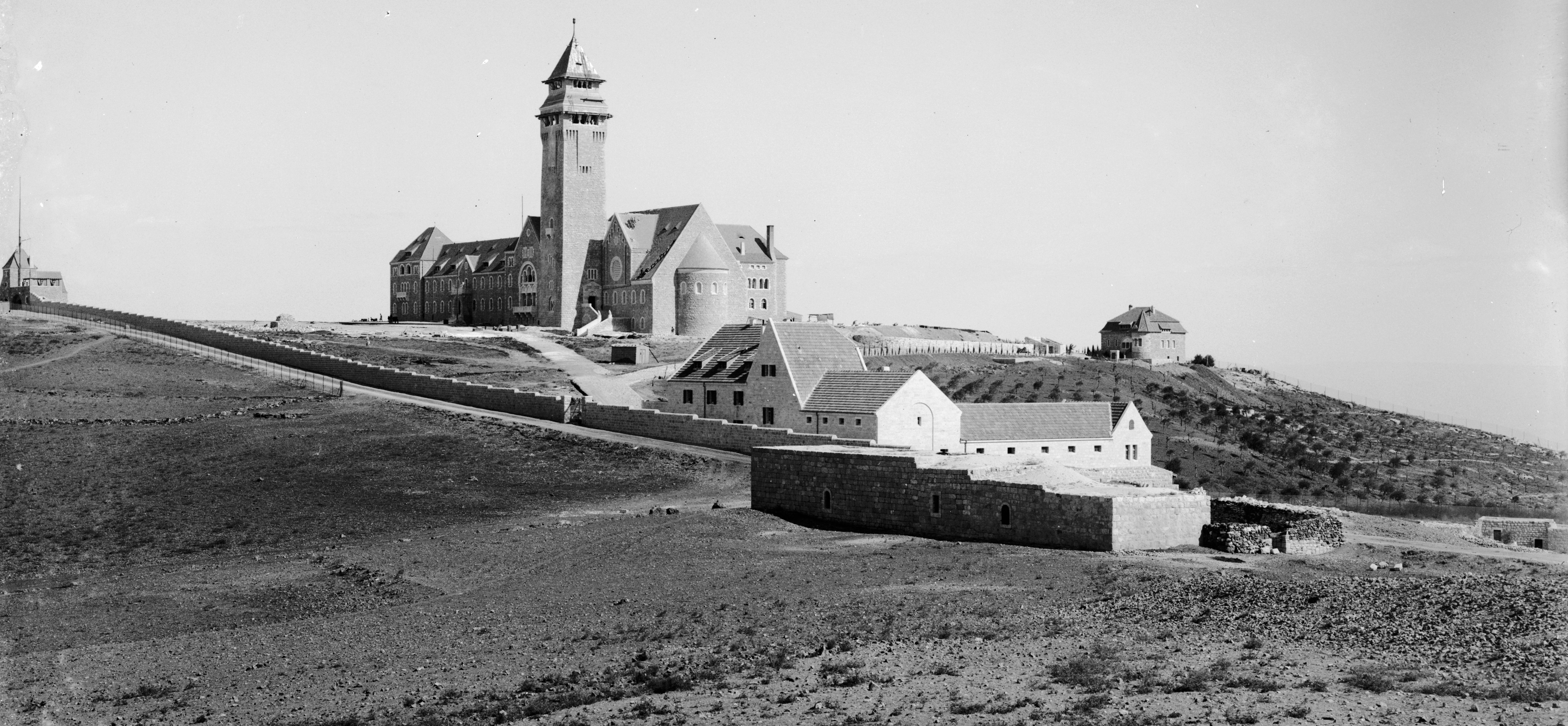 Augusta Victoria Hospice, Jerusalem